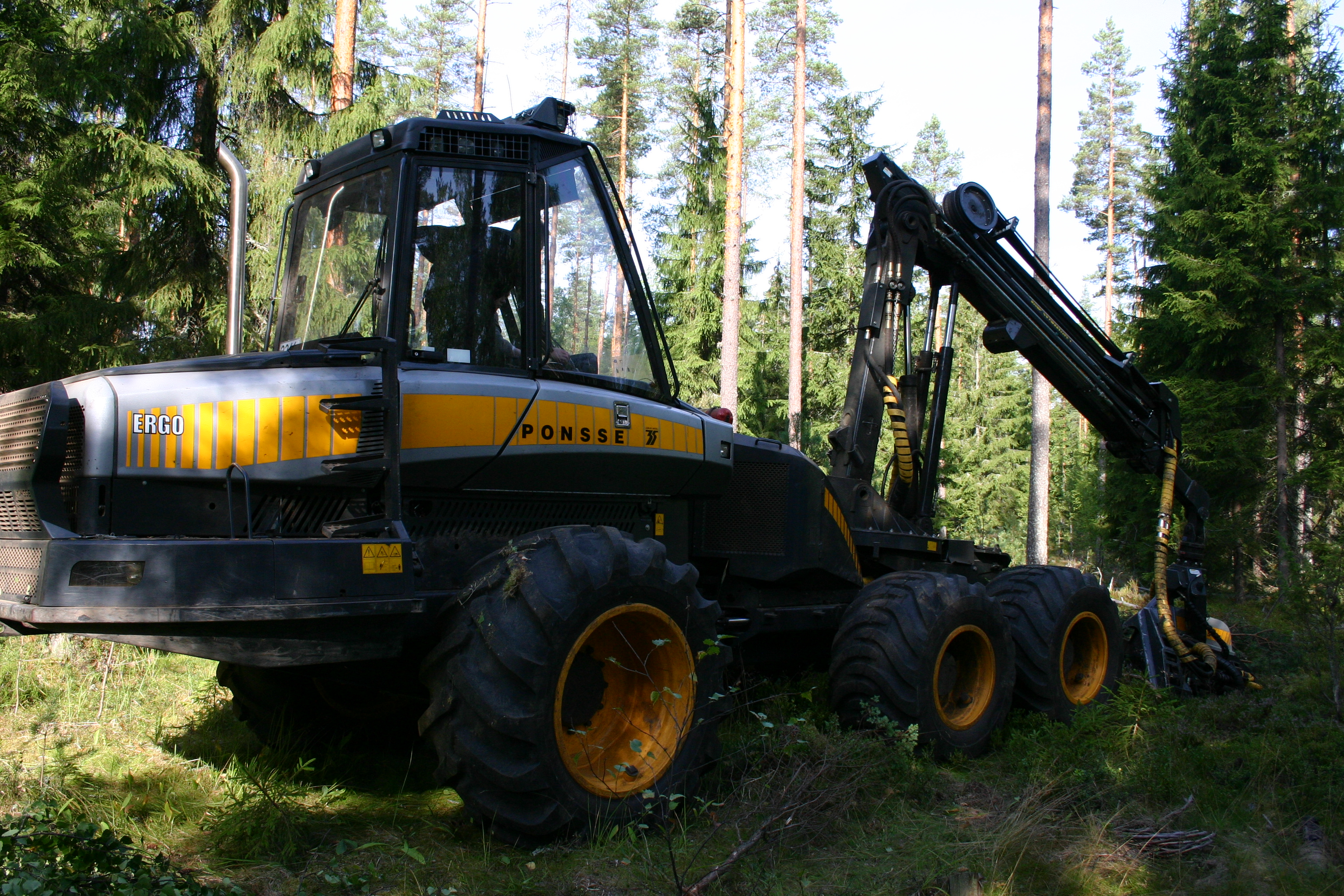 Harvester Ponsse Ergo Series